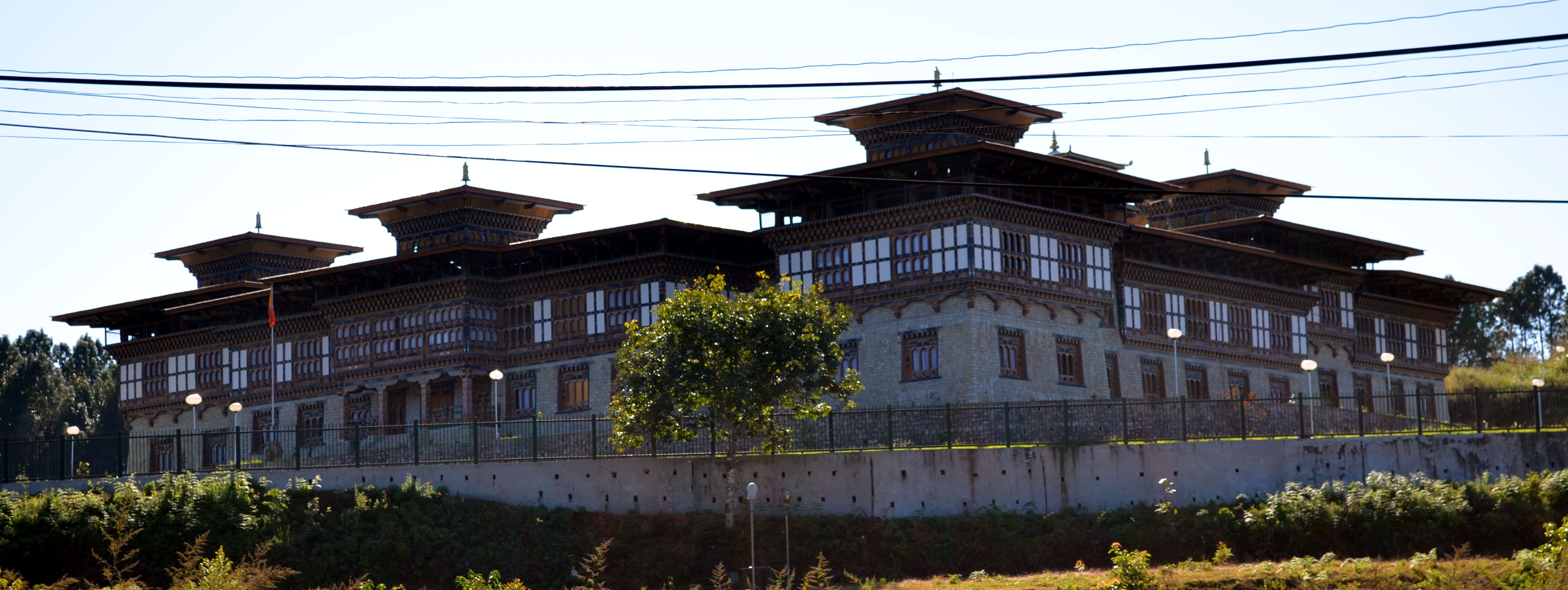 Dzong at Damphu, Tsirang, Bhutan. (Tsirang Dzong) This building houses the Tsirang Dzongkhag government offices.